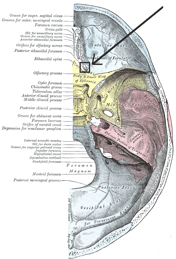 Base of the skull. Inner or cerebral surface.